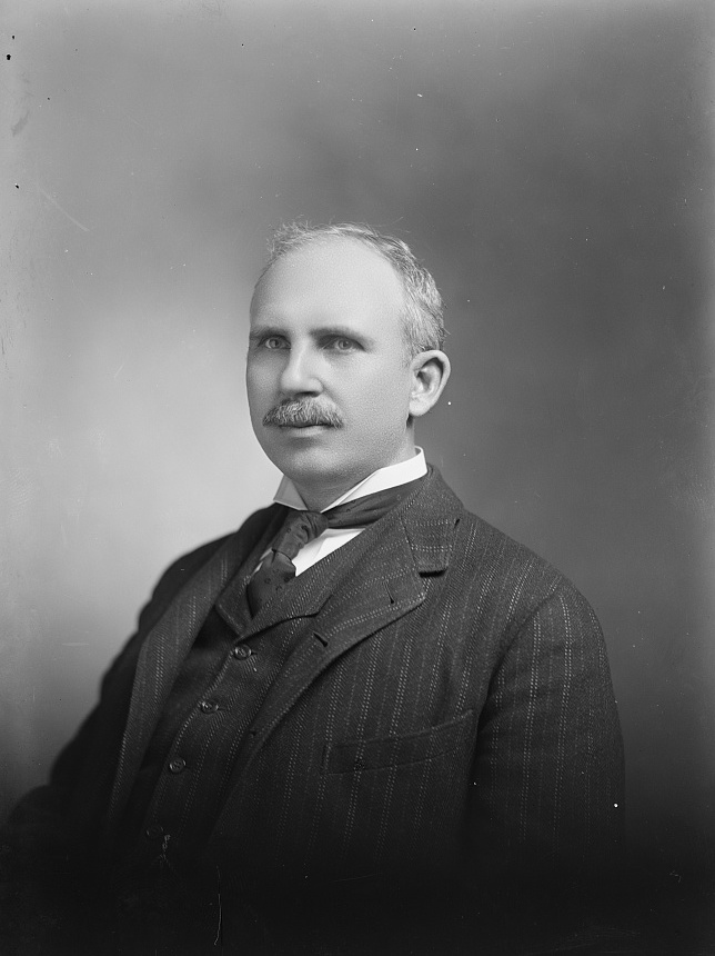 Edward LaRue Hamilton taken by C. M. Bell Studio